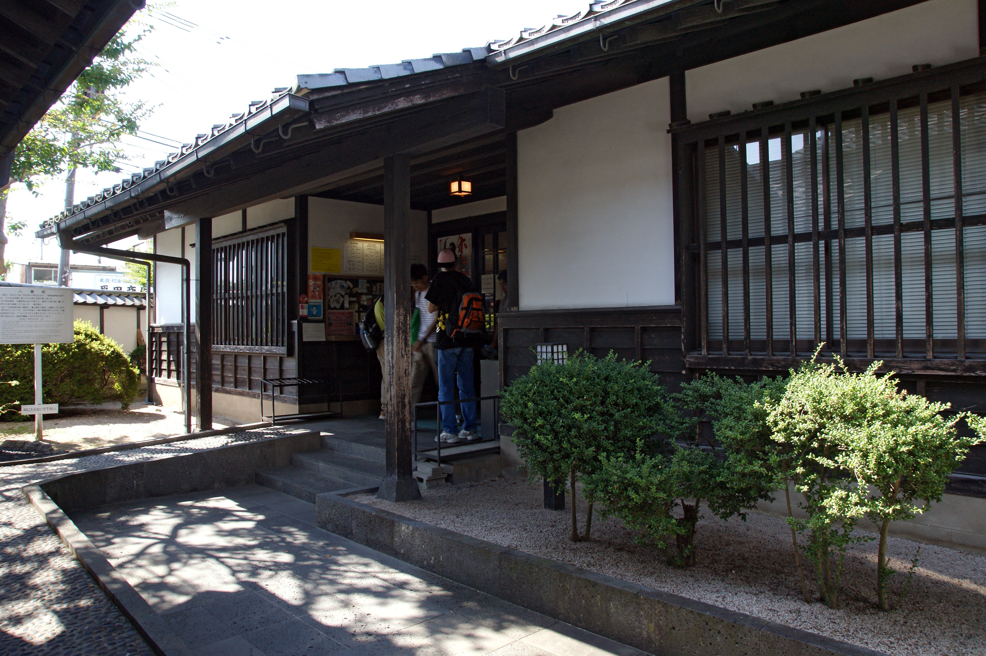 Lafcadio Hearn Memorial Hall in Matsue, Shimane prefecture, Japan